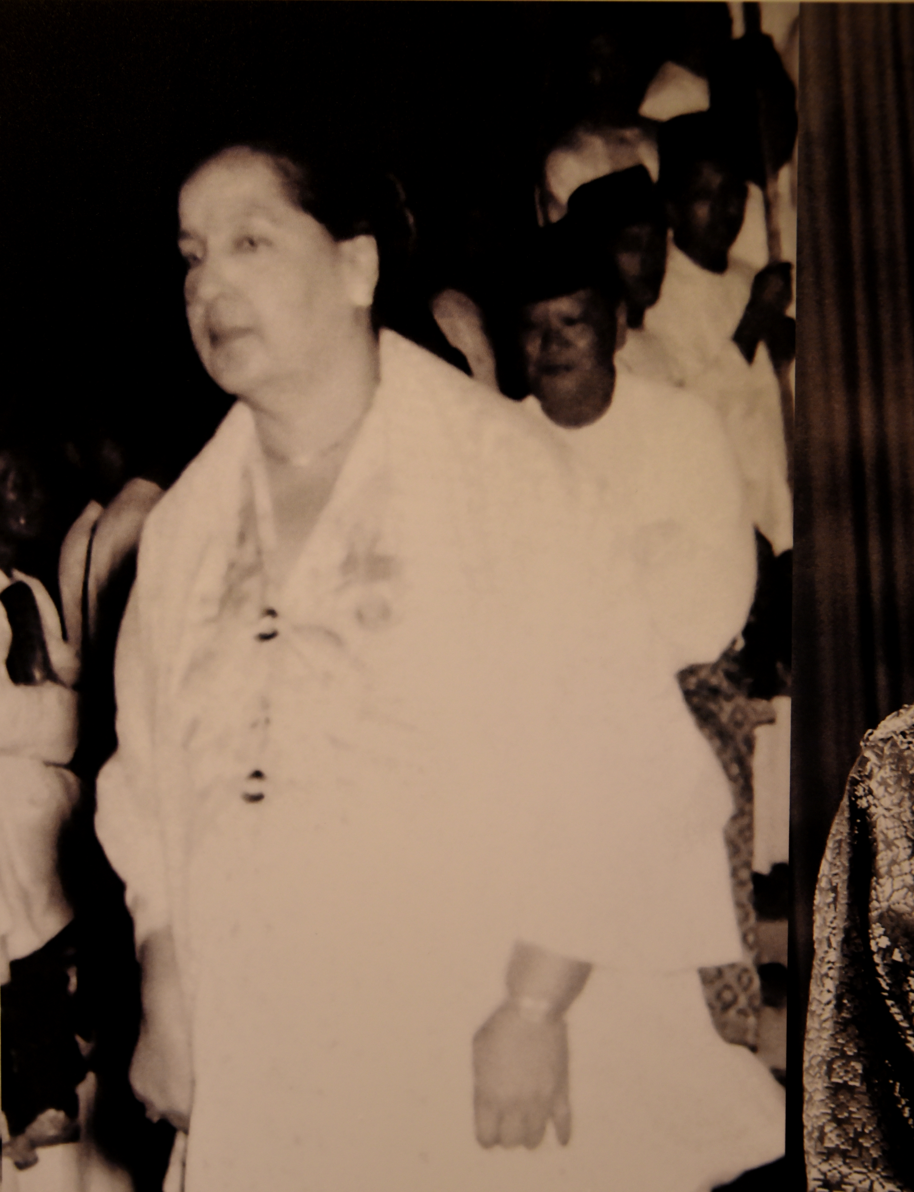 Che Engku Maimunah bt Abdullah @ Delcie Campbell, former wife of Tuanku Abdul Rahman and mother of Tuanku Ja'afar. The name of the photographer was not mentioned. The original image is © the Tuanku Ja'afar Royal Gallery, Seremban, Negeri Sembilan, Malaysia.